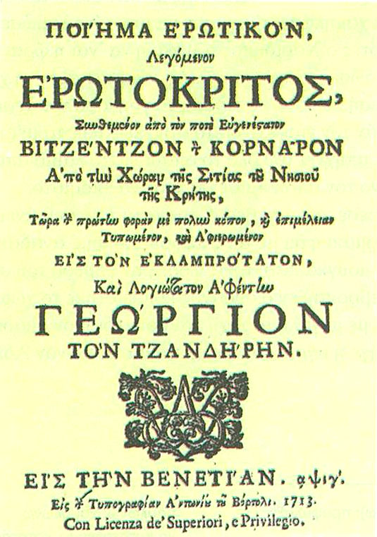 Erotokritos, 1st edition, Venice 1713.